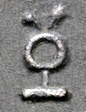 Tamgha of Gondophares Sases